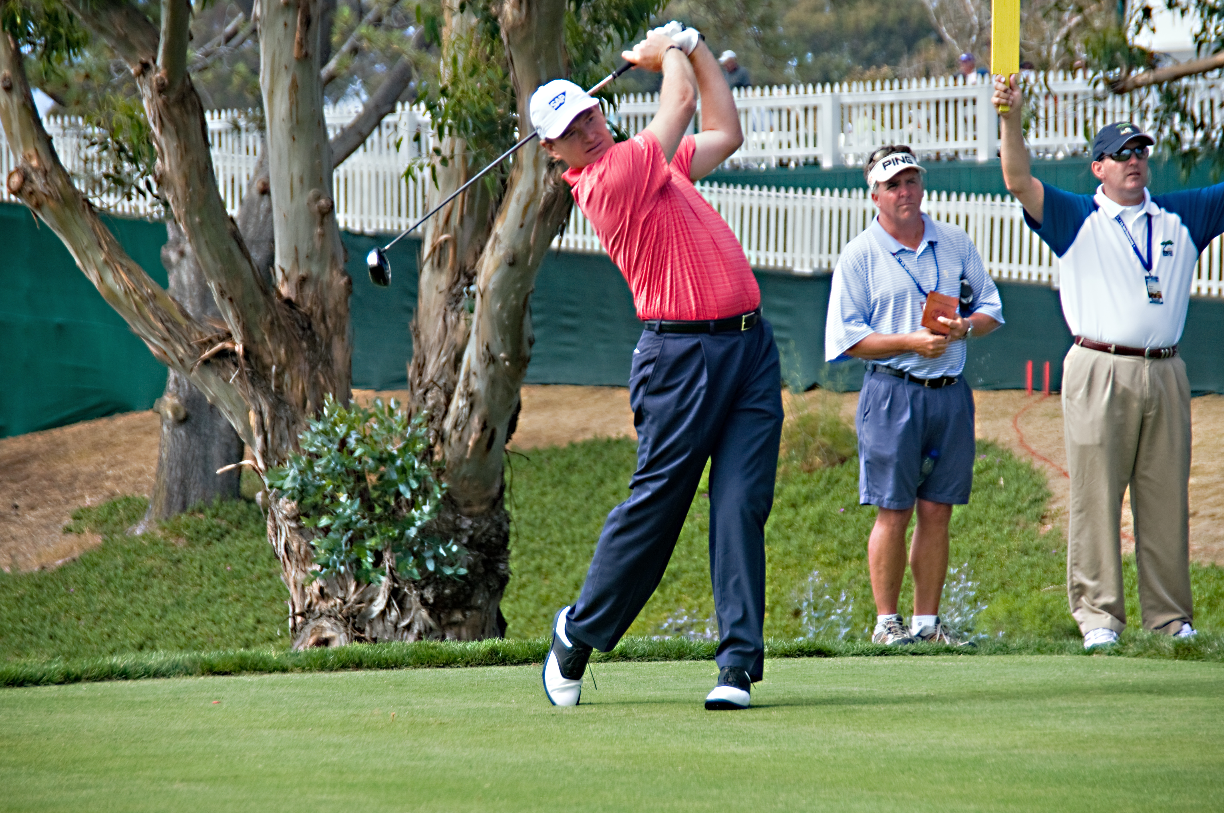 Ernie Els driving on hole #5 during 2008 U.S. Open